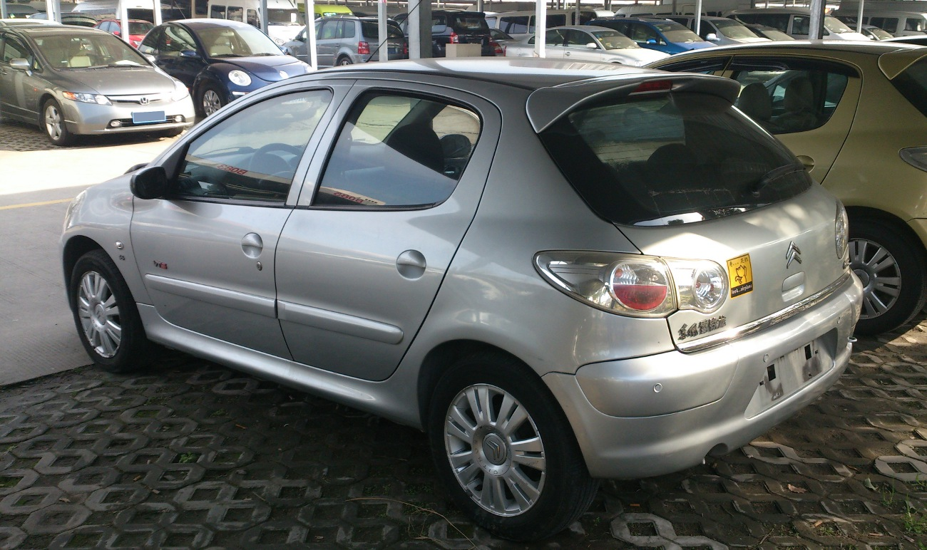 Citroën C2 CN photographed in Shanghai, China.